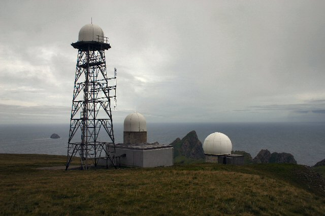 Blot on the St Kilda landscape. This missile-tracking radar station is one of two on St Kilda.